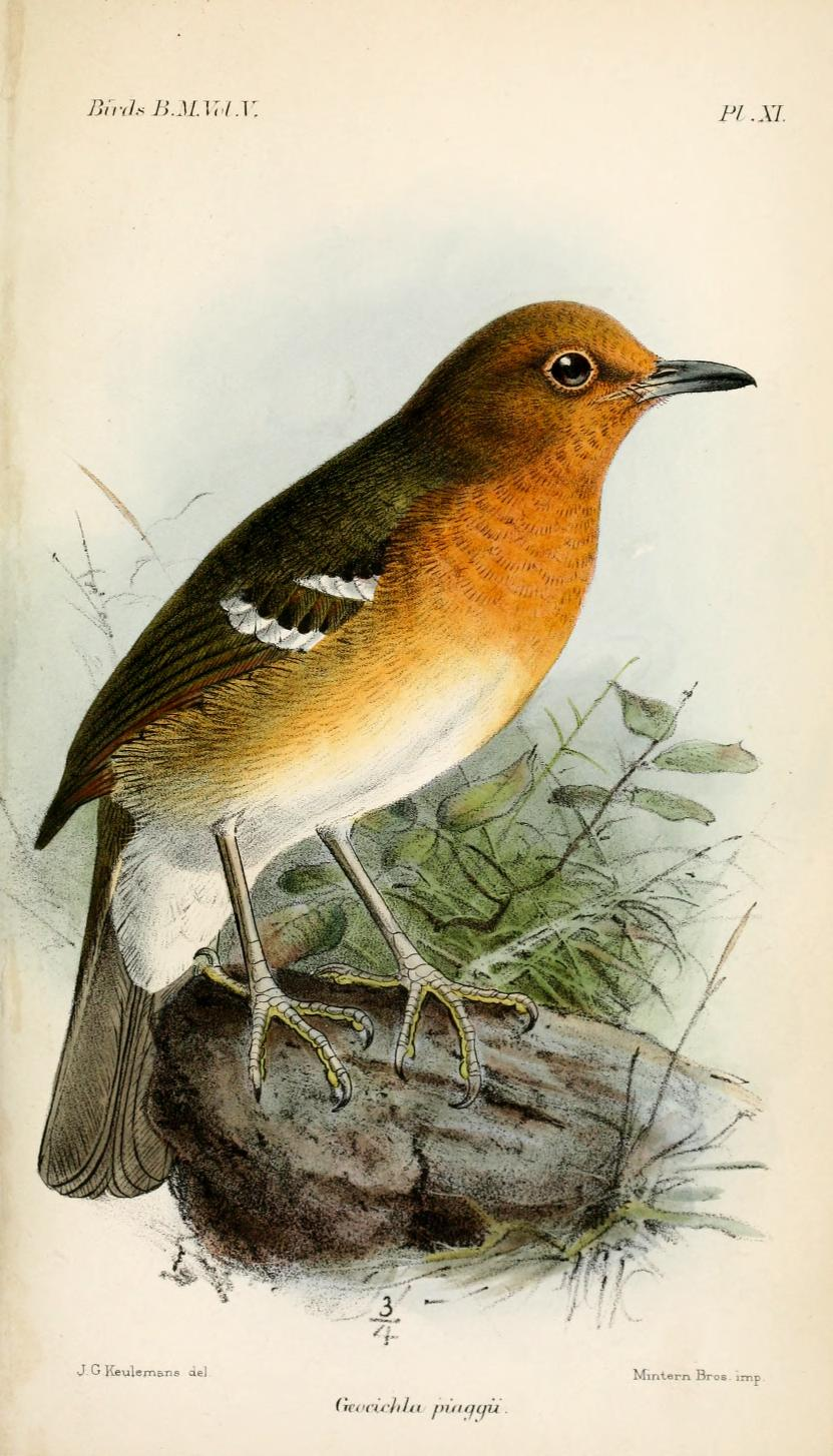 Geocichla piaggii = Zoothera piaggiae Abyssinian Ground-thrush